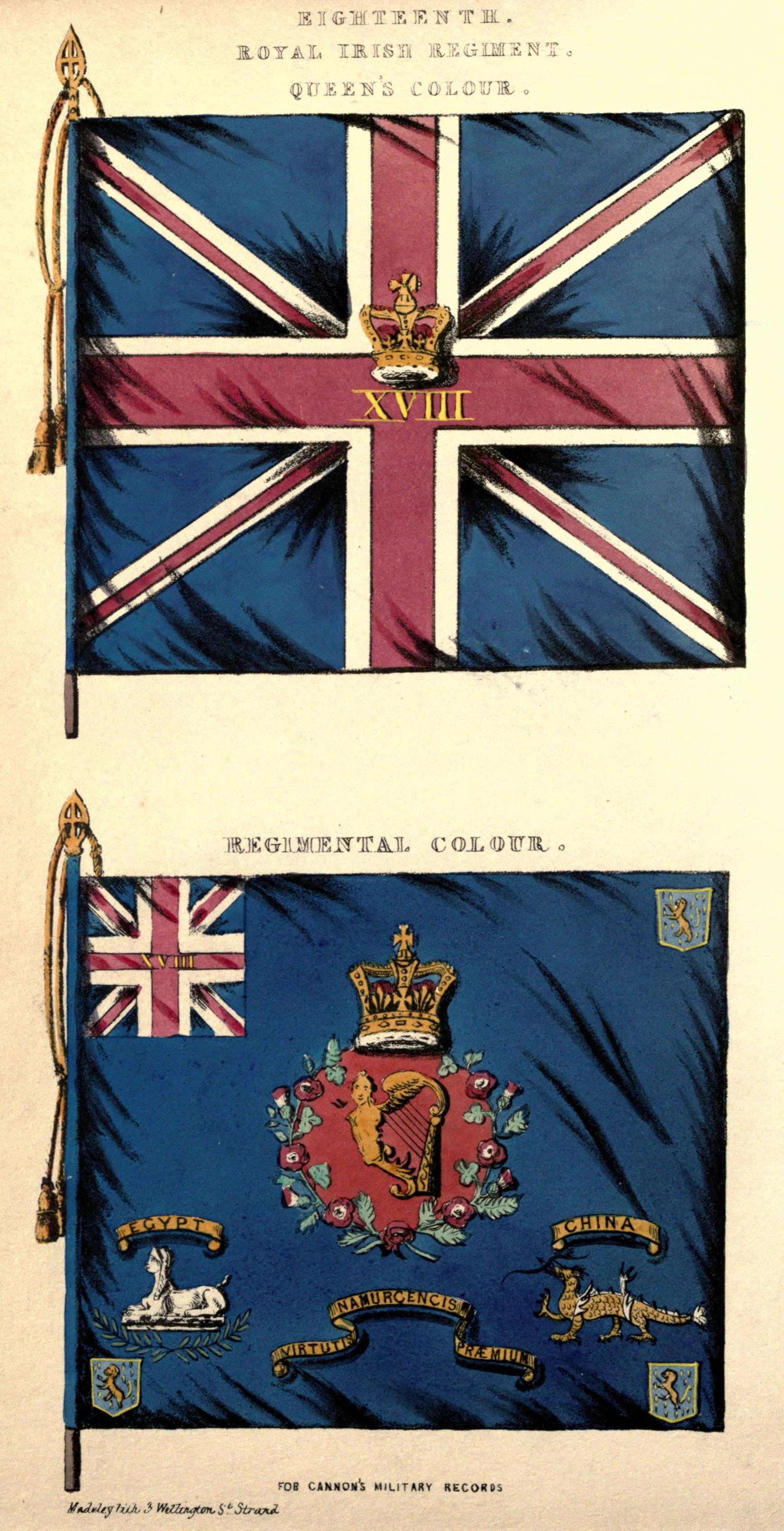 Colours of the 18th Royal Irish Regiment. Queen's colour (top) and regimental colour (bottom).